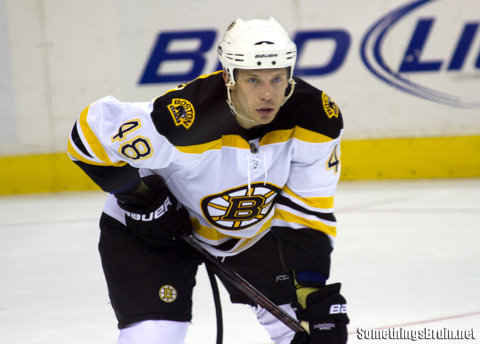 Matt Hunwick Boston Bruins vs Washington Capitals. National Hockey League (NHL) Photo taken by Sarah Connors on November 5, 2010 using a Canon EOS REBEL T2i. This photo also appears in sarah_connors' Flickr set: Bruins vs. Caps (Set of 27)